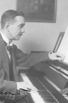 Adolf Wiklund at 1920